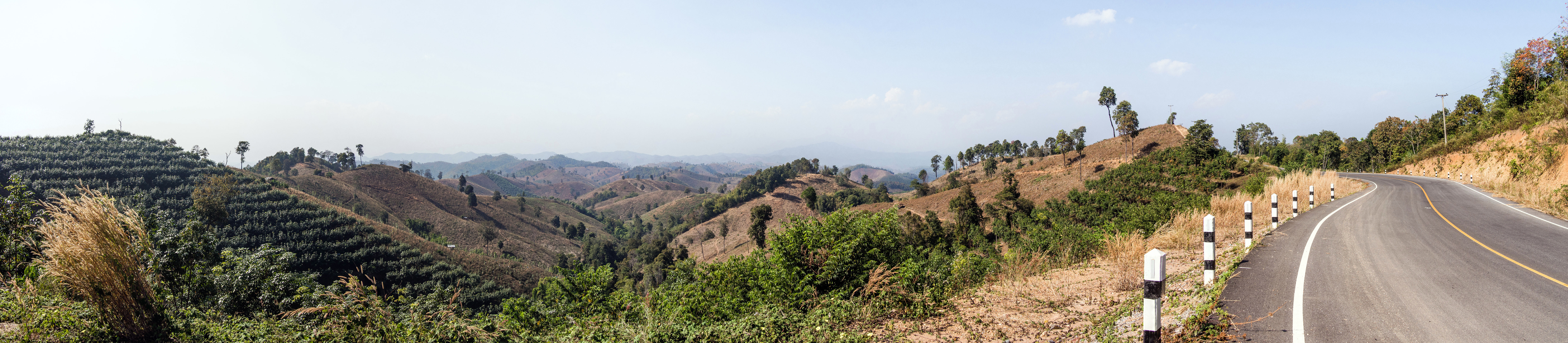 Panorama taken from road 1339, looking towards the west. This image was created with Hugin